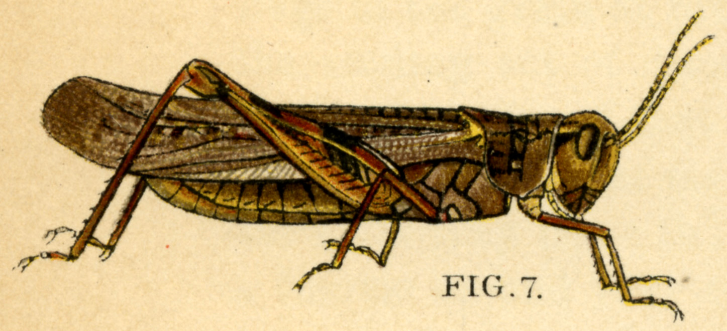 Rocky Mountain locust